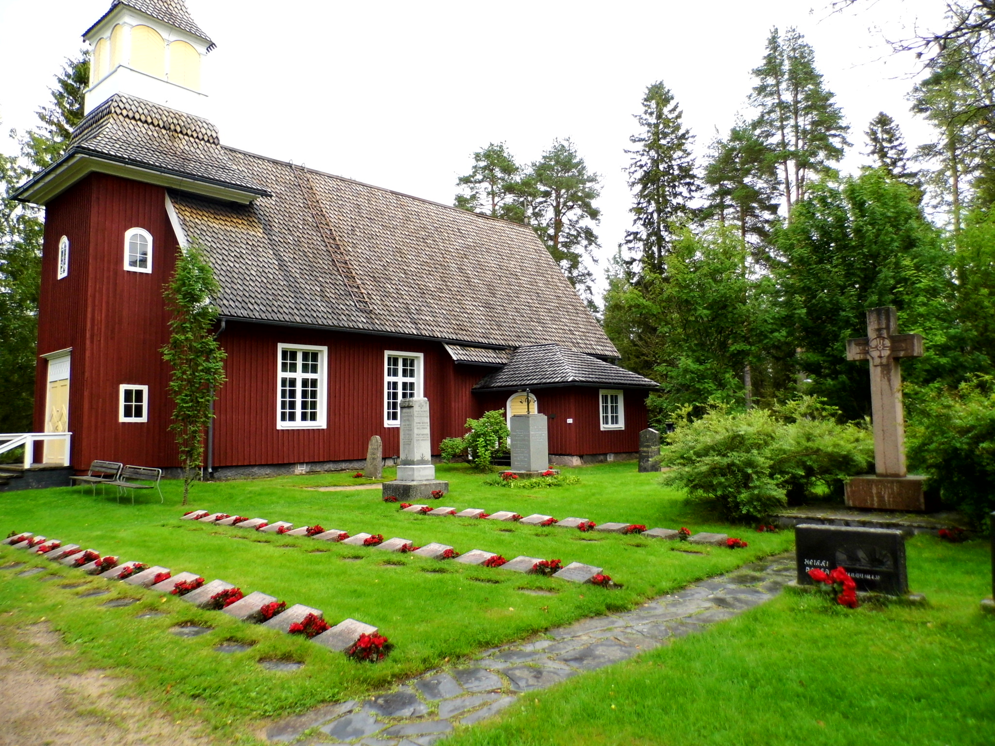 Military cemetary at Temmes Church in Tyrnävä, Finland